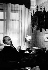 Henri Debluë